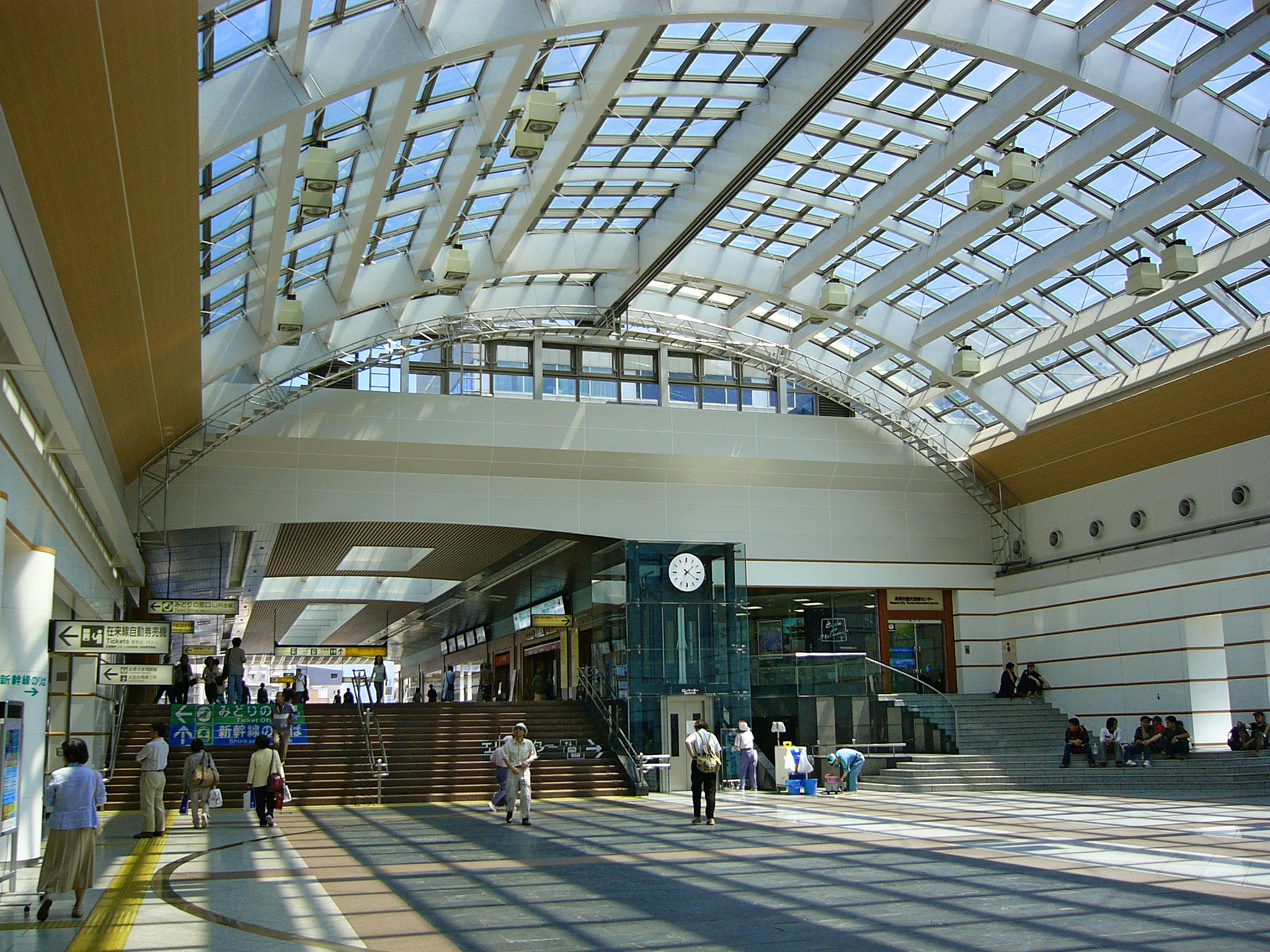 Nagano Station in Nagano, Nagano prefecture, Japan